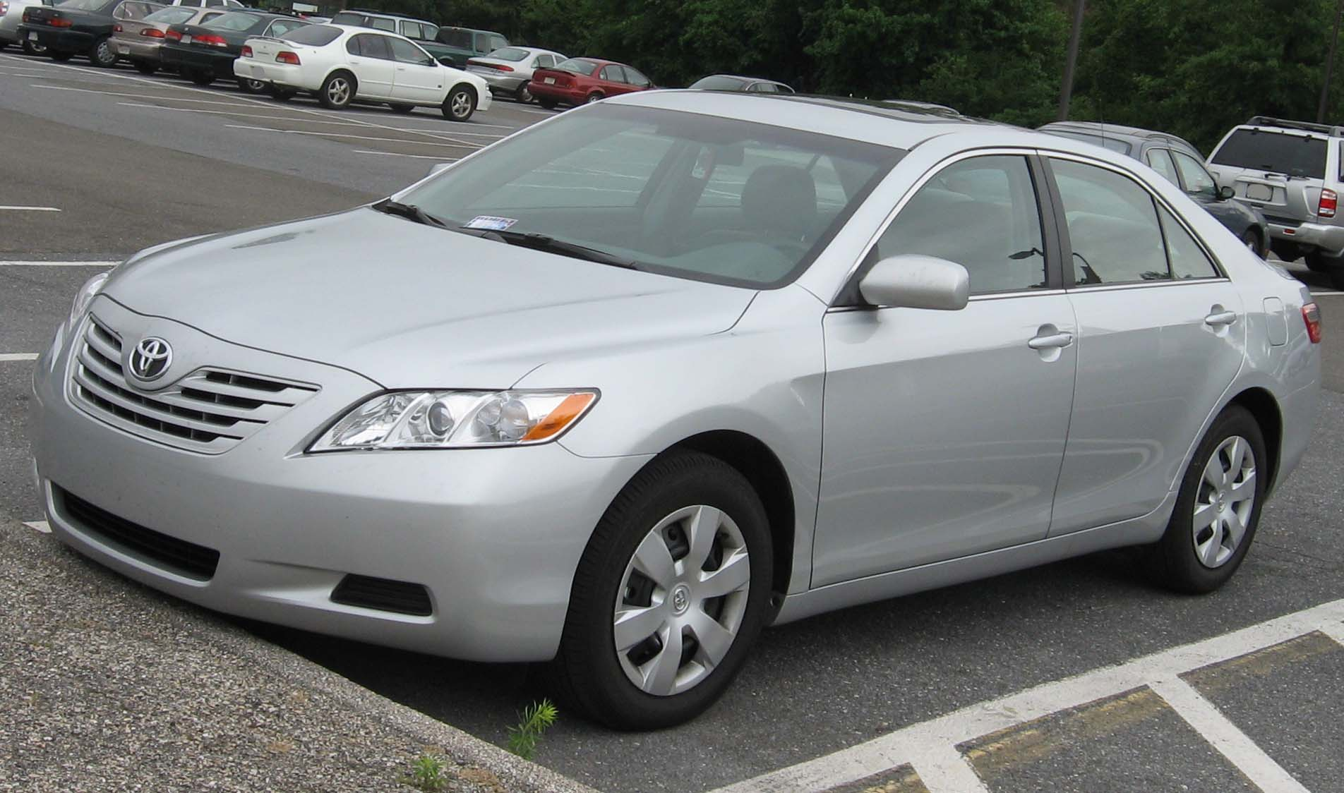 2007 Toyota Camry photographed in USA.